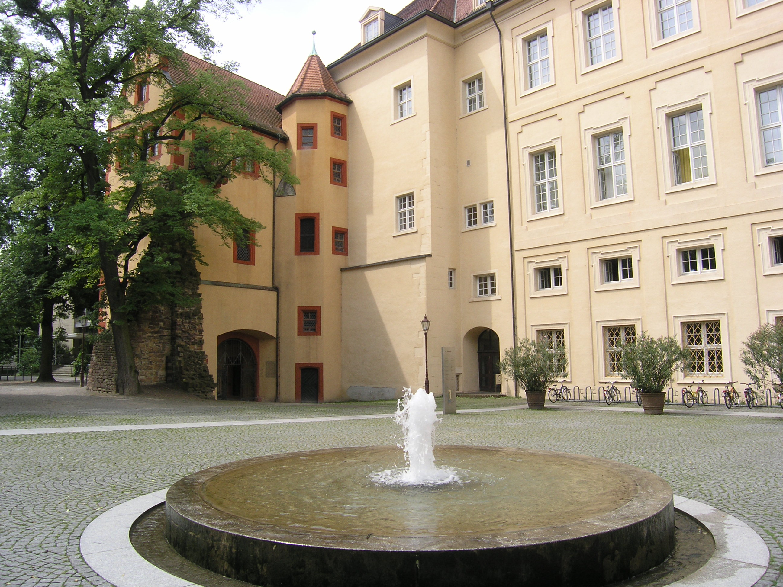 The Karlsburg castle in Karlsruhe-Durlach, new fountain by Karl Bauer